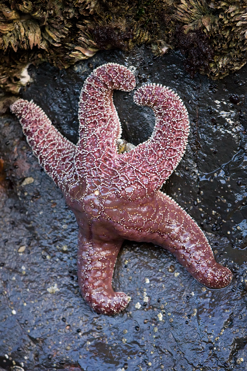 We can see these starfishes (Pisaster ochraceus) during low tide on the rocks near the Haystack Rock on the coast at Cannon Beach, Oregon, US.